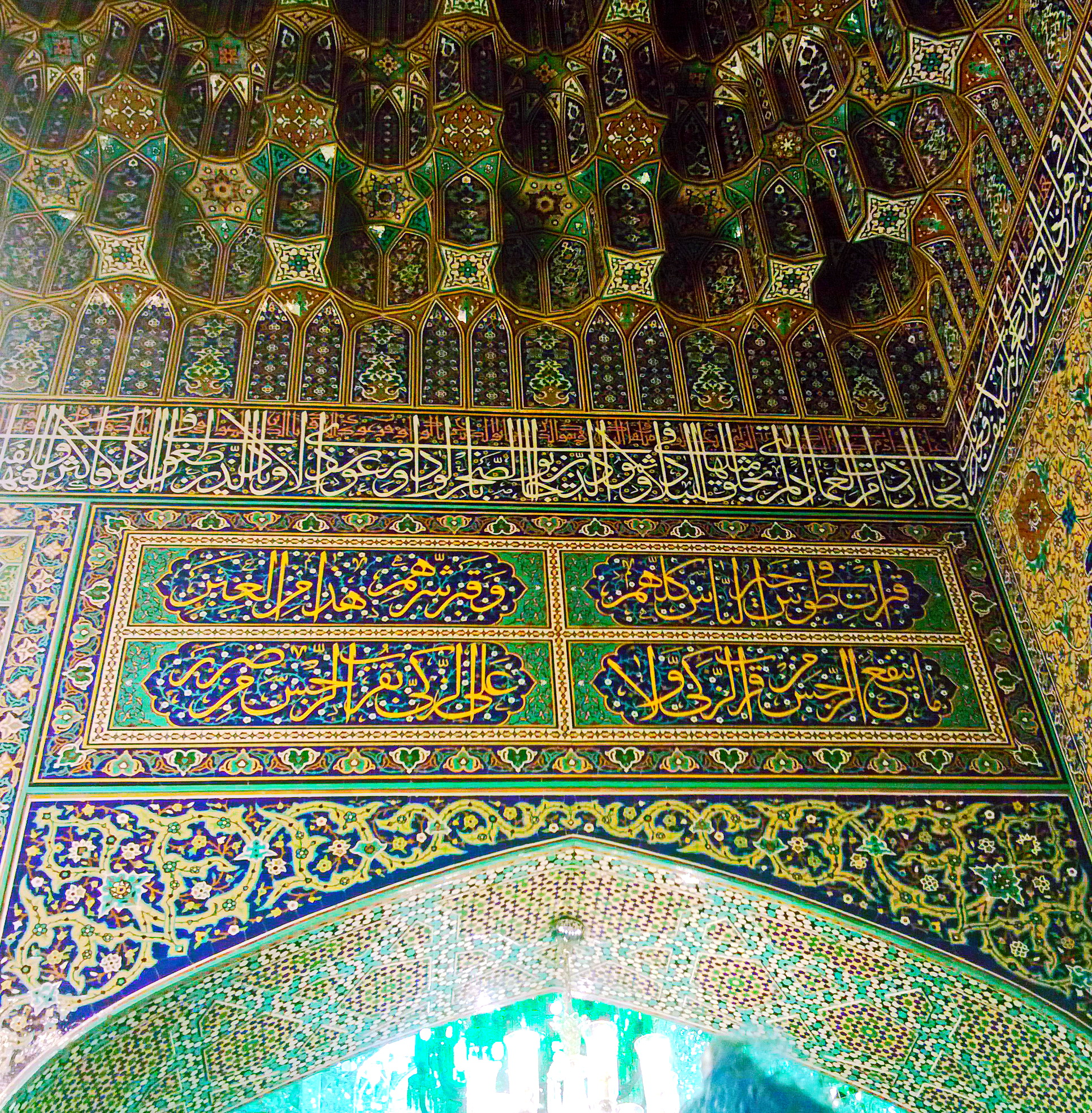 Diʻbil al-Khuzāʻī-Arabic Praise poetry on Ali al-Ridha-Tiling-Balasar Mosque (Longitudinal Cropped)